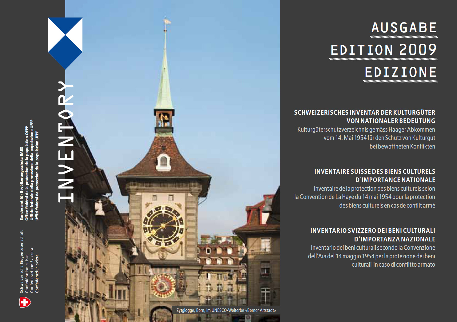 Swiss inventory of cultural property of national and regional significance, title page.